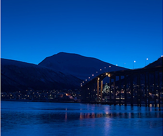 Tromsdalen, Tromsø, Norway